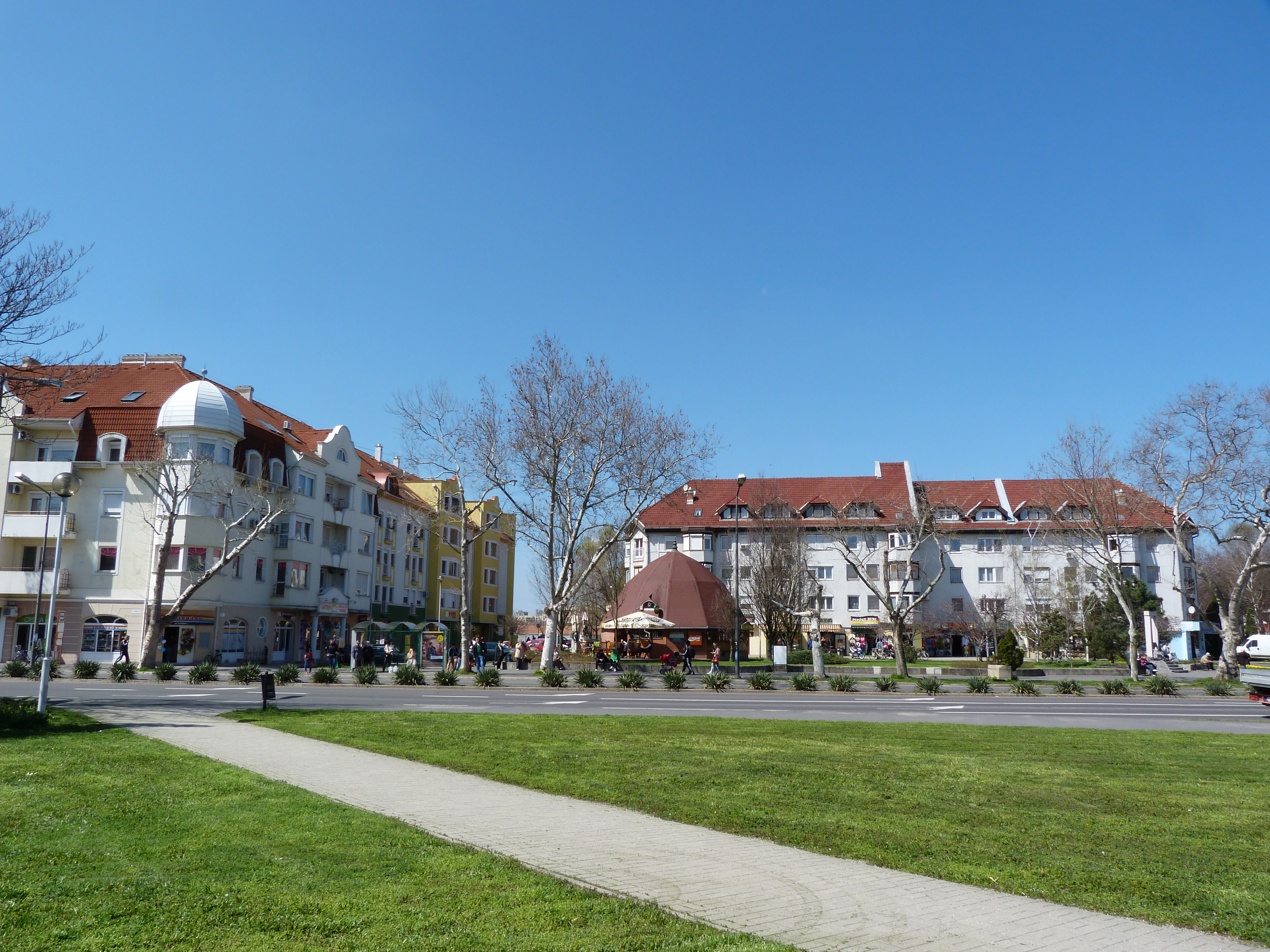 Live on Thursday, 15th of April, 2013. Békéscsaba, Hungary. After a cold, winter like period, a really nice day we are having. ©© Derzsi Elekes Andor, Budapest, 2013, You are authorised to use these photos and vids under Creative Commons – even for commercial, for profit purposes. Photos must be attributed to Derzsi Elekes Andor. All of the photos and vids in the Metapolisz DVD line are under Creative Commons and can be used even for commercial – for profit – purposes. Recommended Citation Derzsi Elekes Andor: Metapolisz DVD line A felvételek 2013. Április 15 –én, szerdán készültek Békéscsabán.